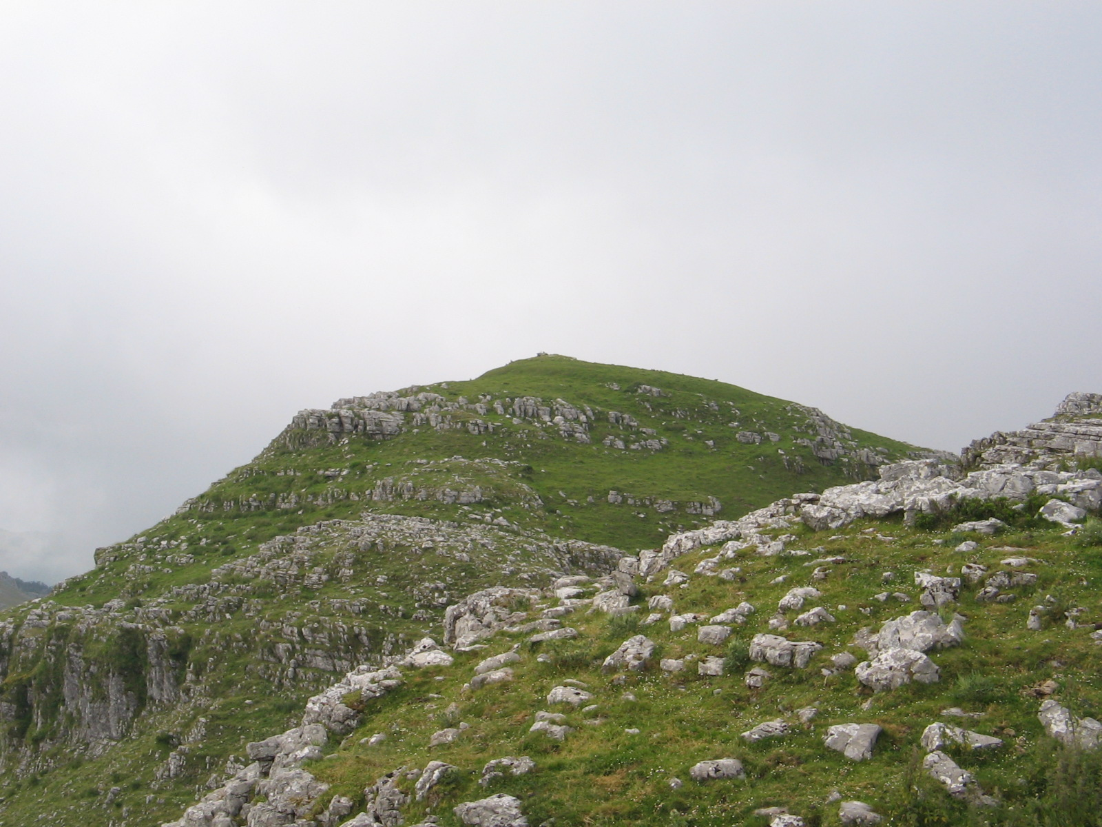 Ganboa summit at the massif Aralar in the Basque Country from a northern approach